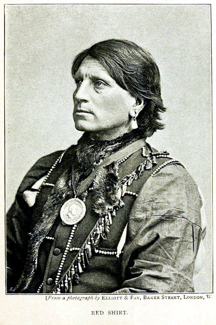 Red Shirt (Ógle Lúta c. 1845 – 1925)